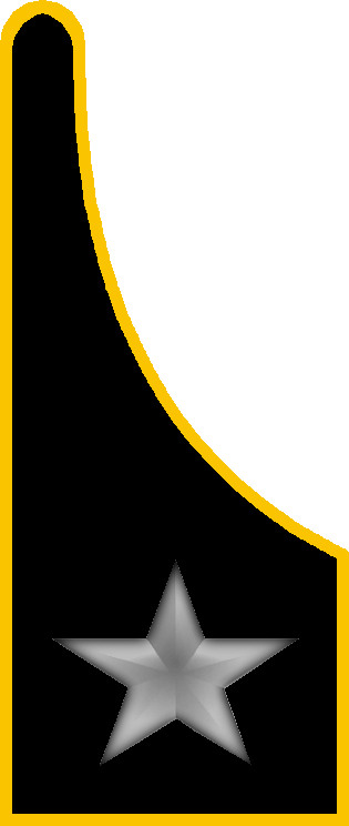 Italian Army - Artillery Arm and Specialities: gorget patch for artillery personnel